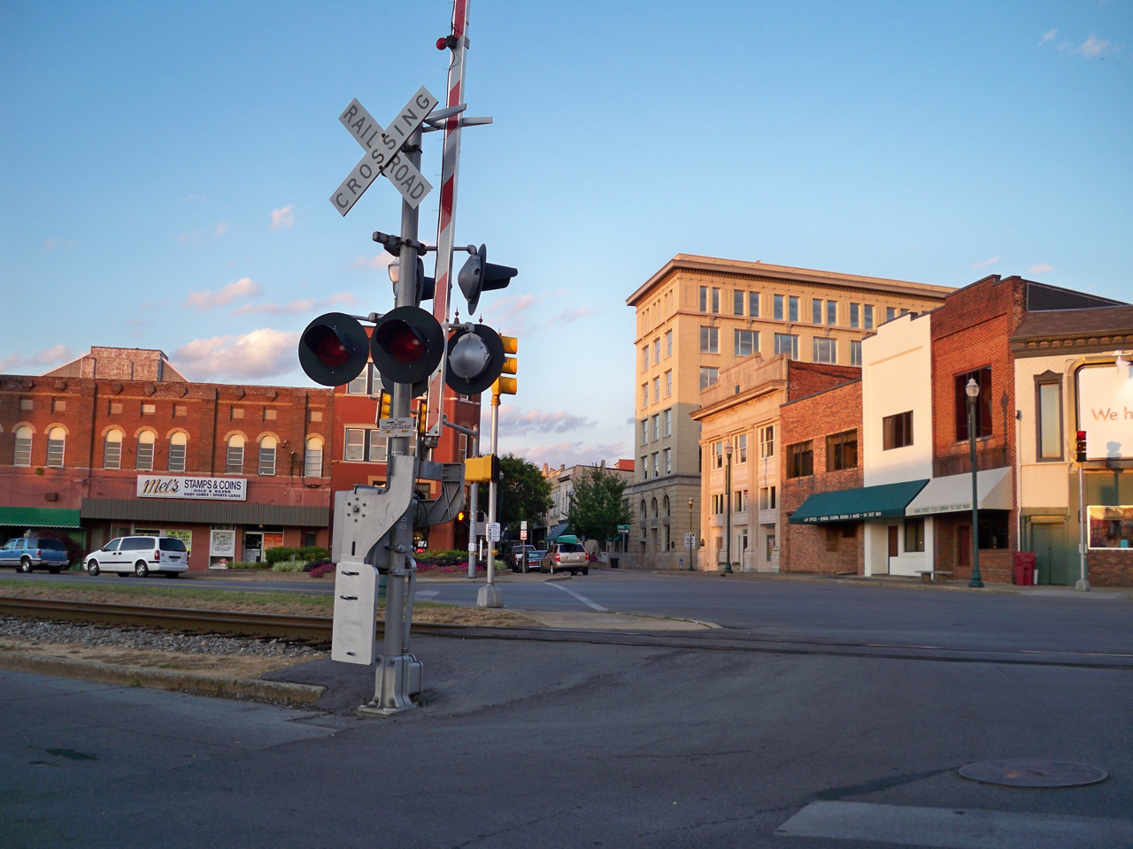 An easterly view down Main Street in downtown Johnson City, Tennessee.